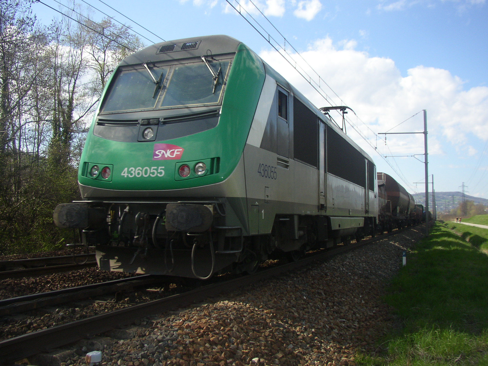 BB 436055 seen at Bois-Plan, near Chambéry, in april 2006. Personal picture.